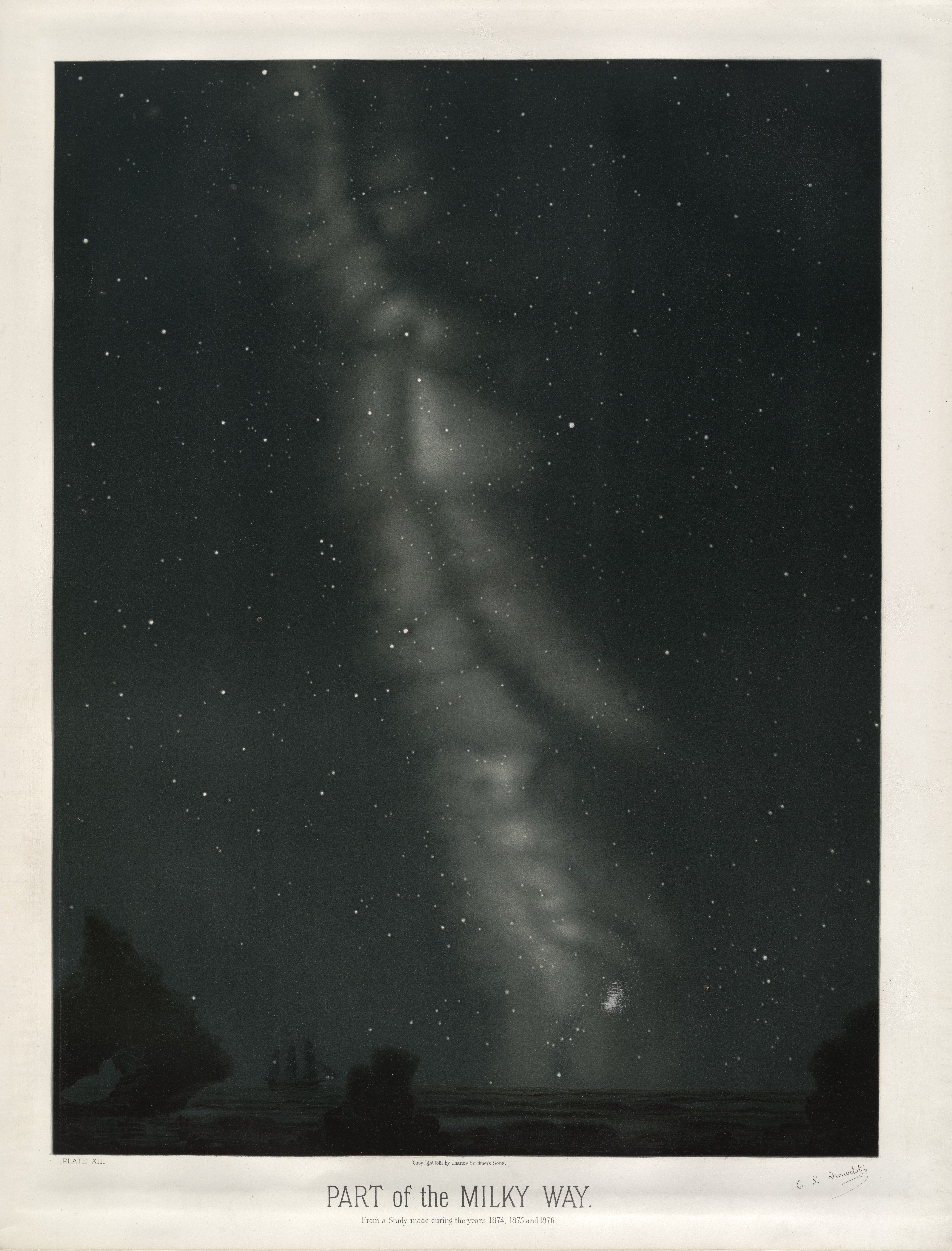 Part of the Milky Way. From a study made during the years 1874, 1875 and 1876. (Plate XIII from The Trouvelot Astronomical Drawings 1881)